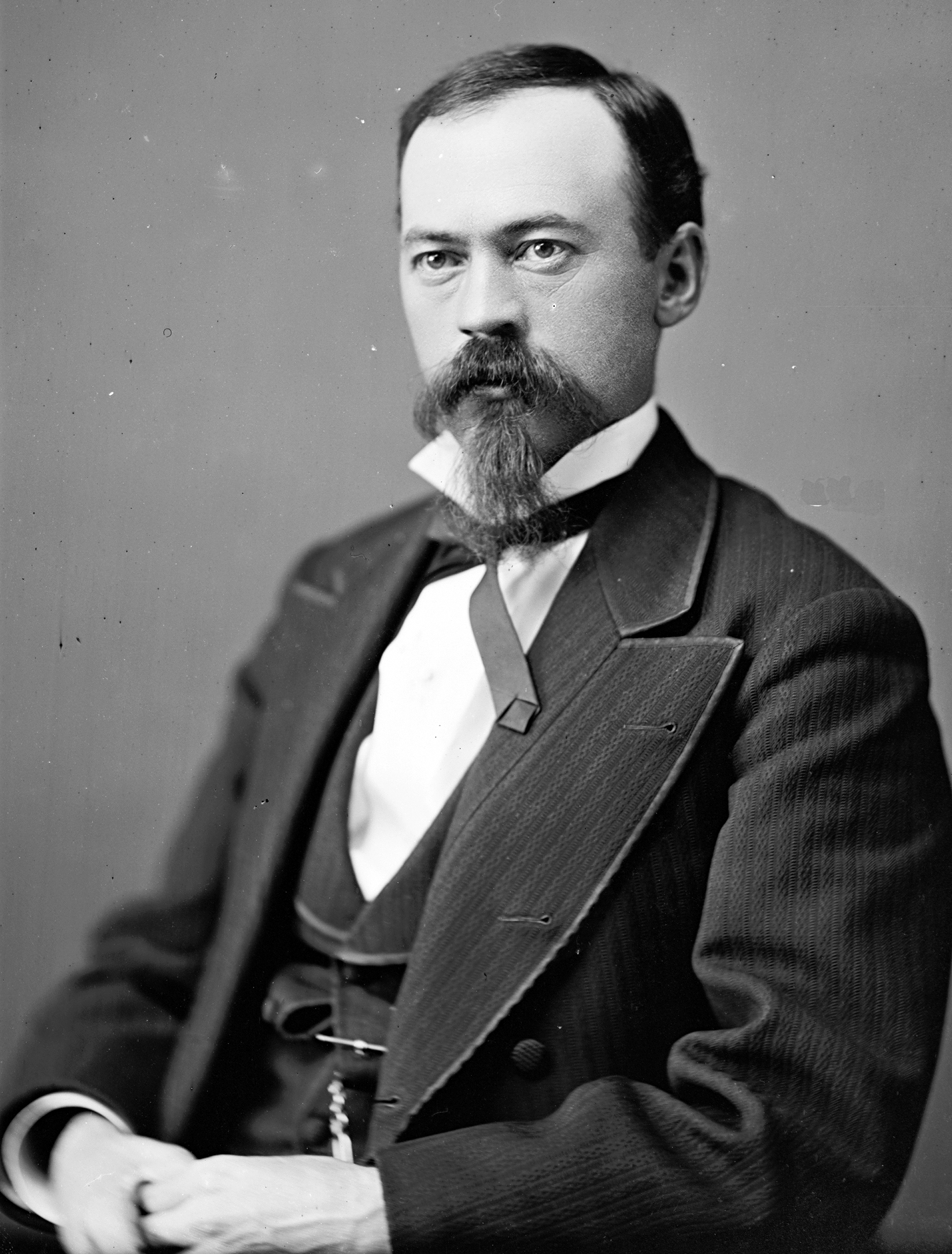 Charles Henry Morgan, US Representative from Missouri